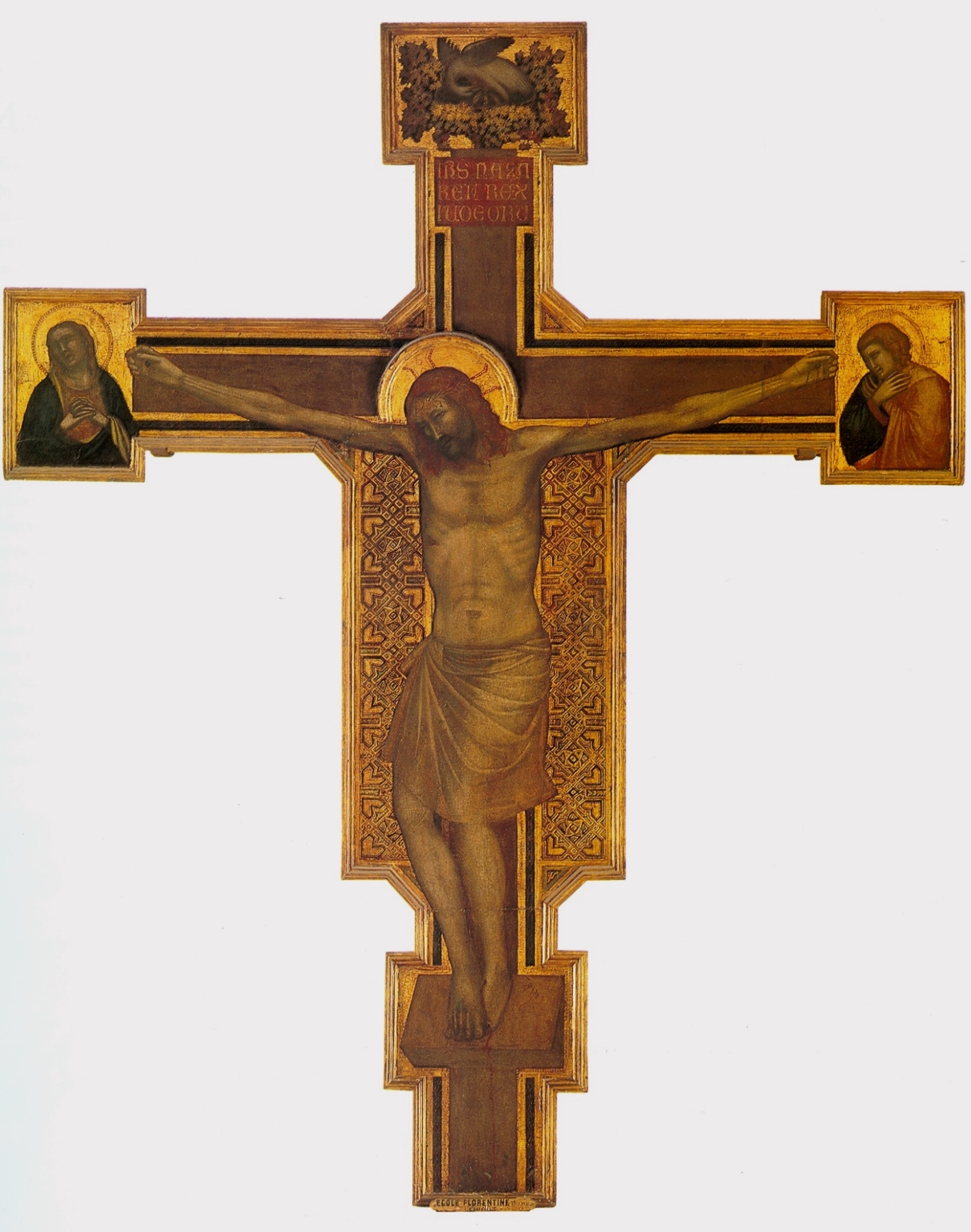 Giotto._Crucifix._c._1315._Louvre,_Paris